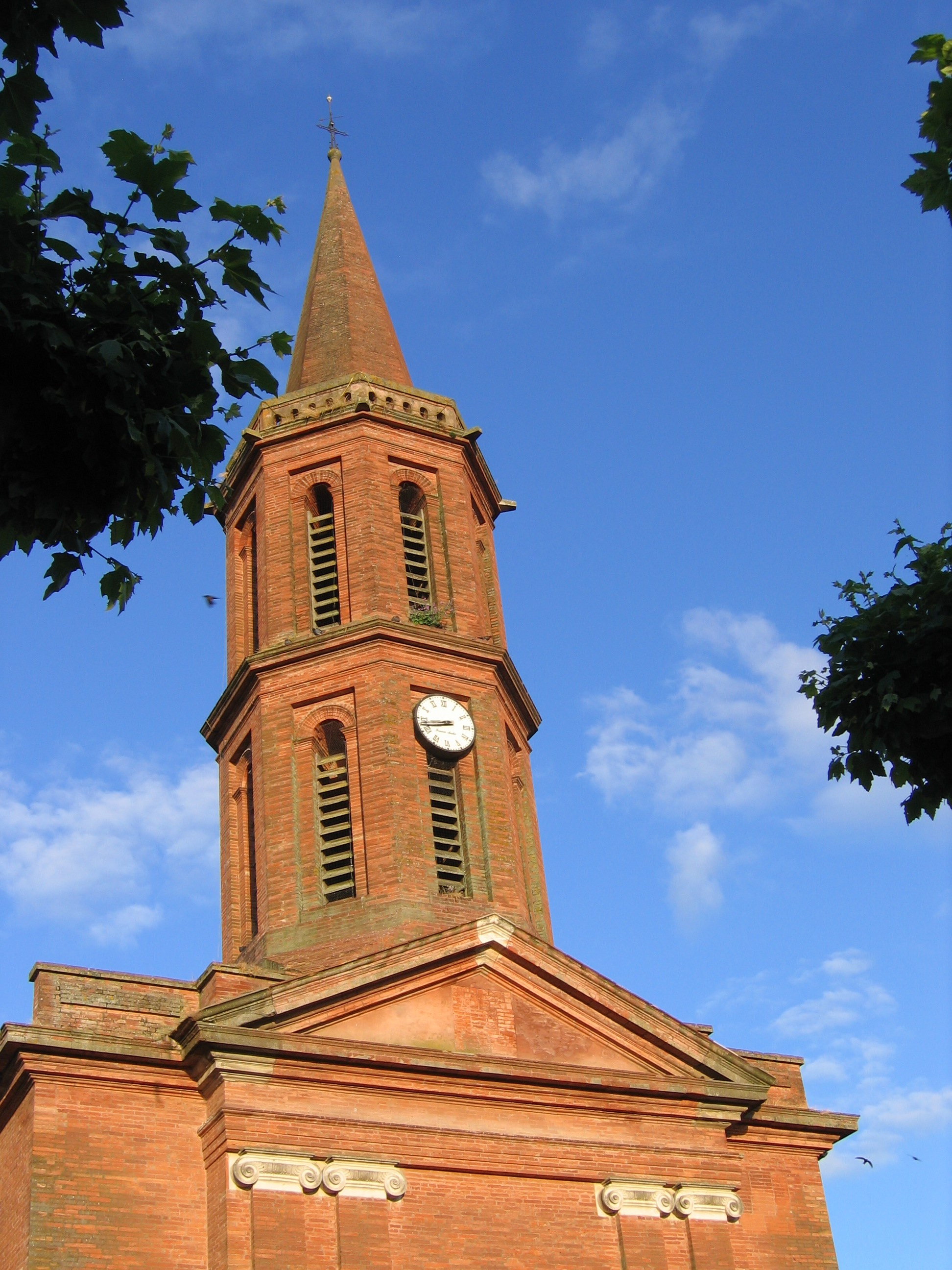 Saint-André church from Lherm in Haute-Garonne (France)